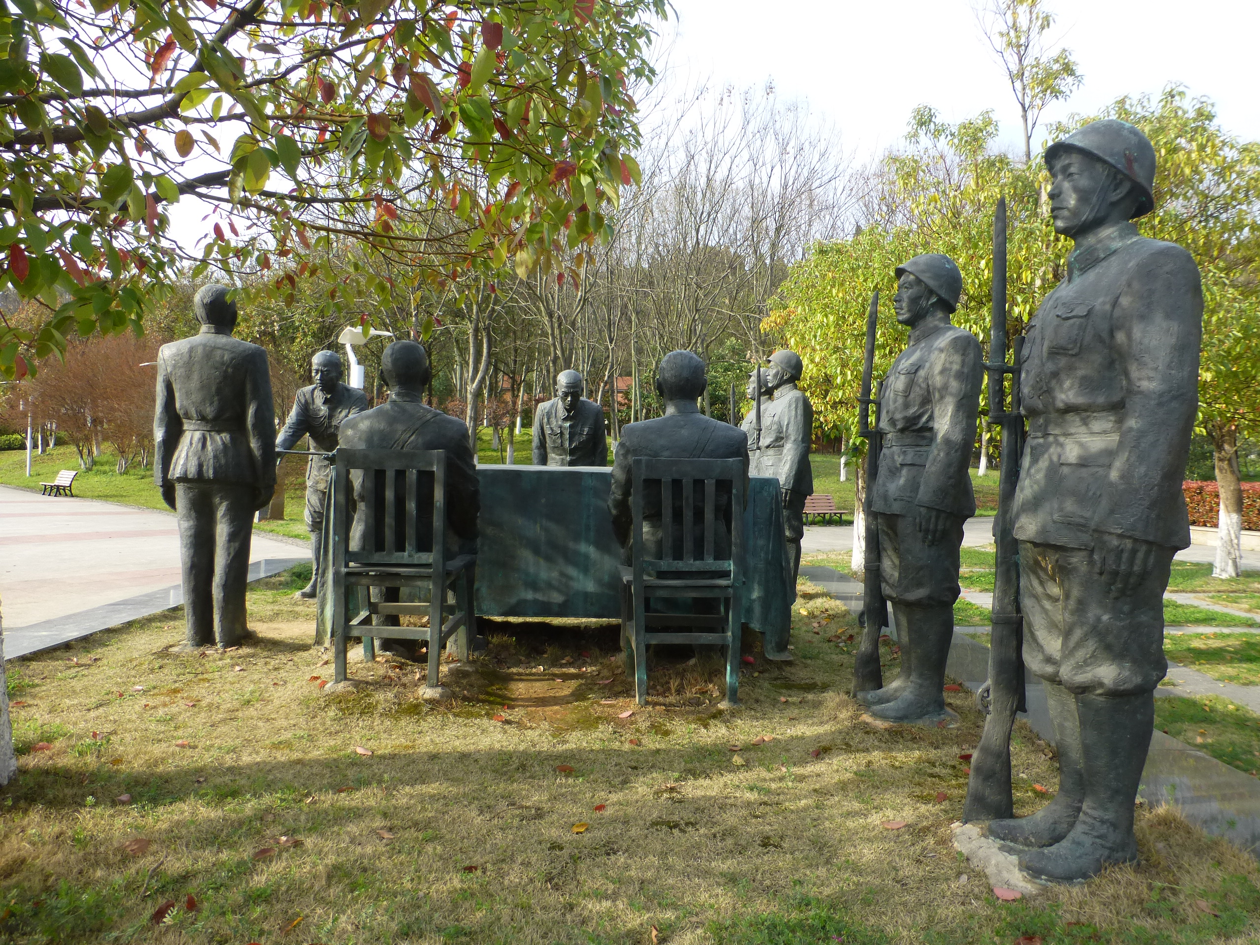 The victory memorial in Zhongshan Warship Tourist Area.